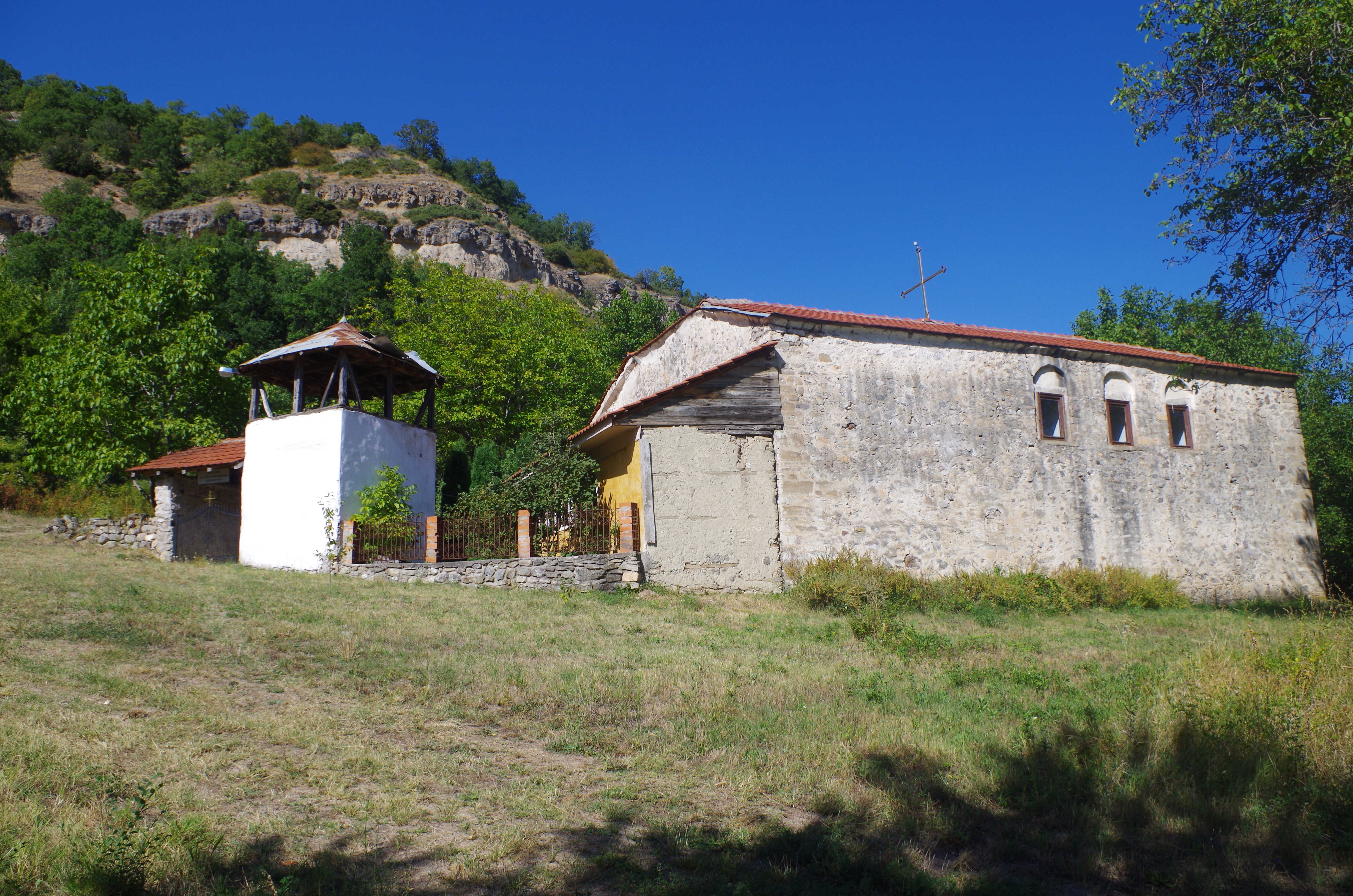 Bošava Monastery